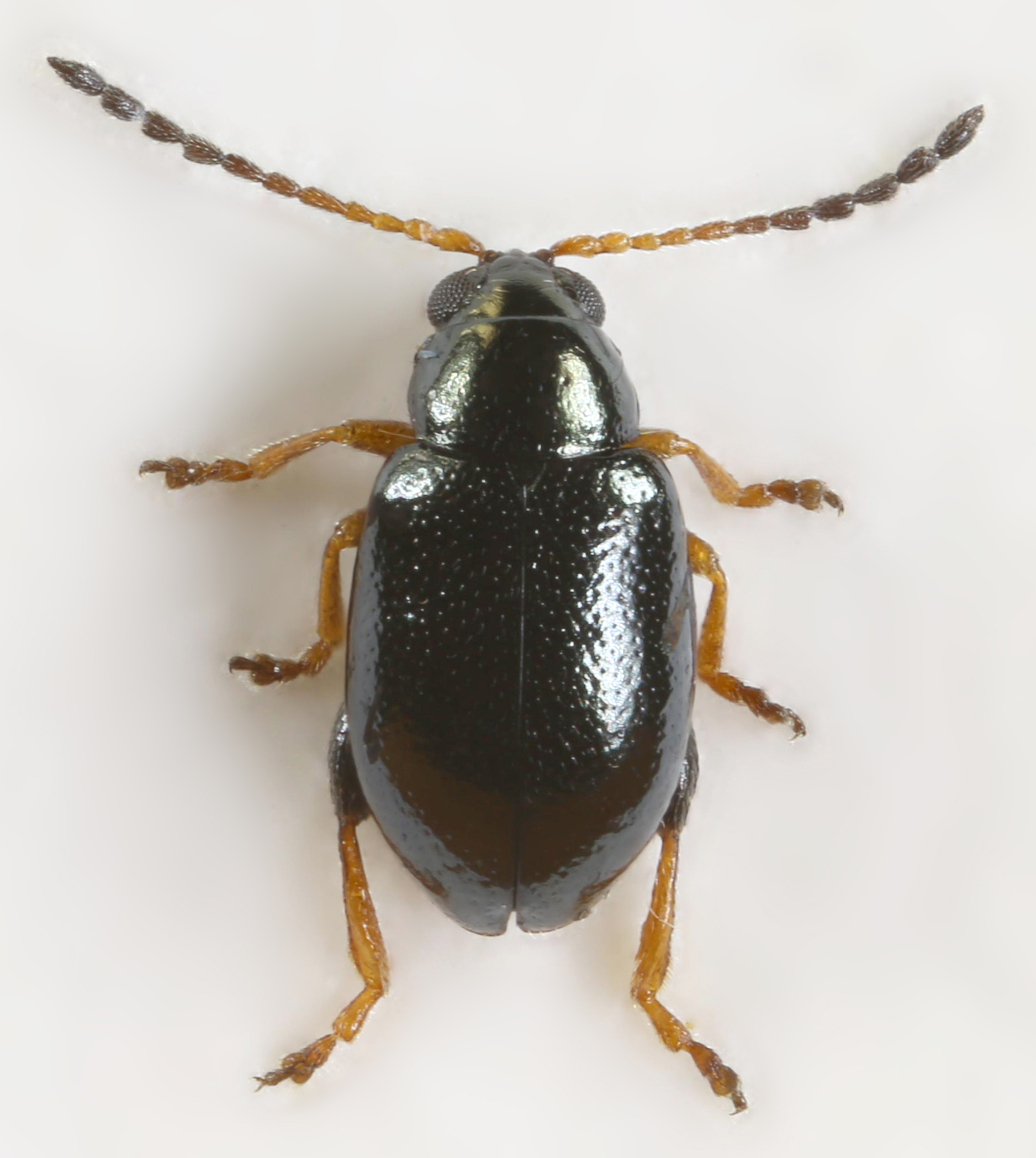 Aphthona euphorbiae, Minera, North Wales, Sept 2017